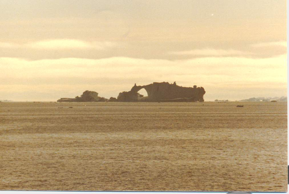 Iceberg in Disko Bay on a spring afternoon Photo by Jan Kronsell